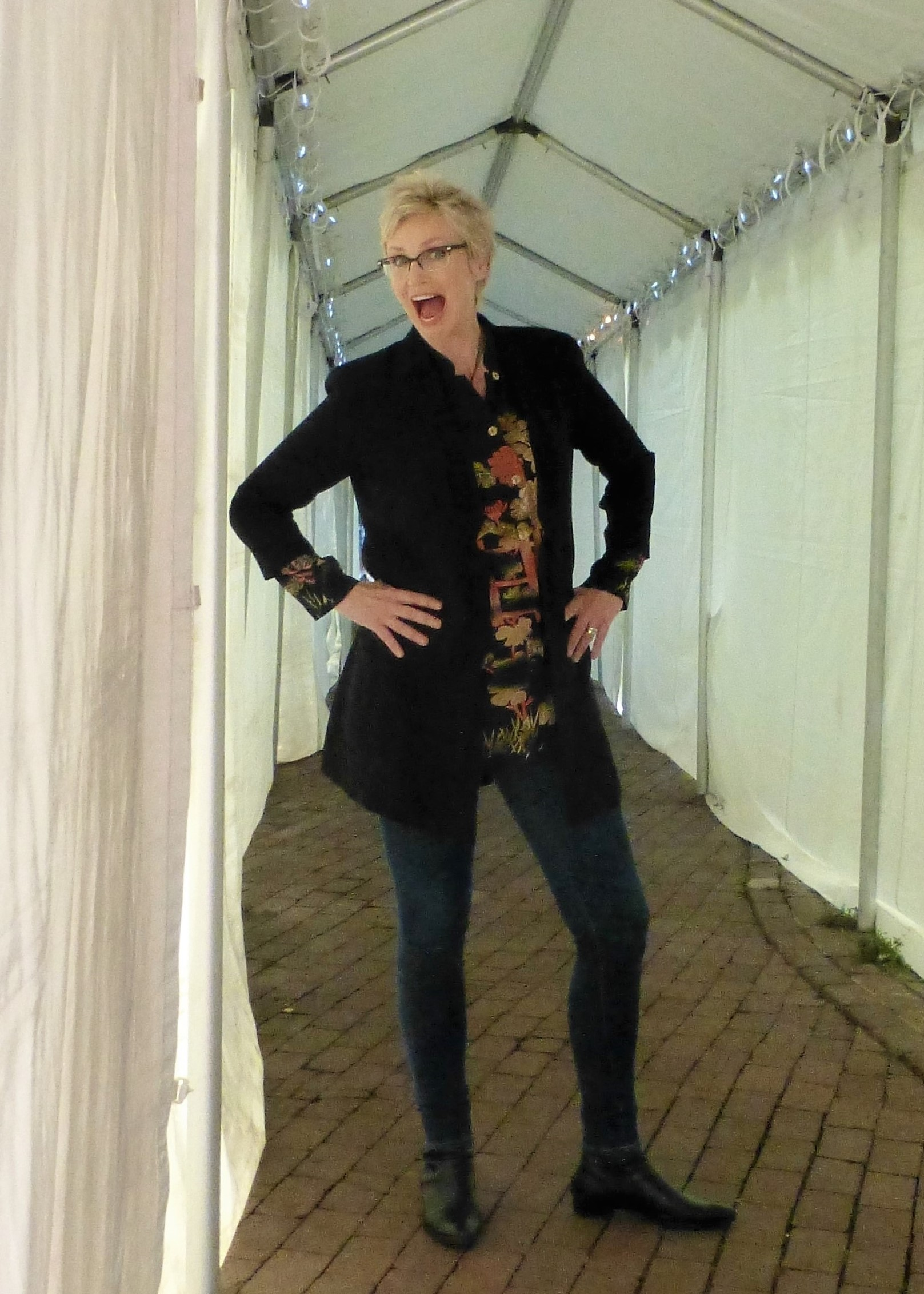 Jane Lynch at the premiere of Mascots, 2016 Toronto Film Festival